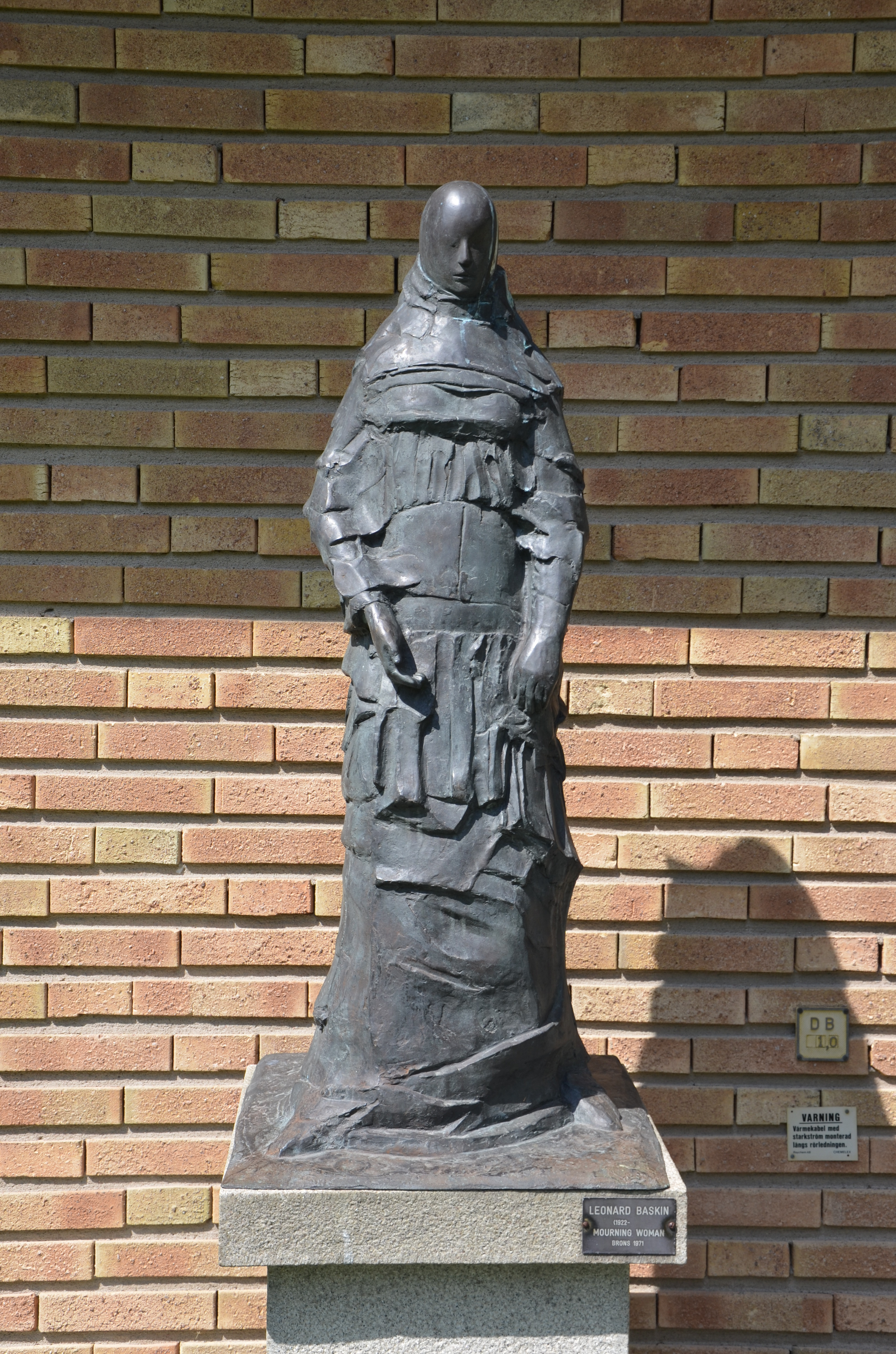 Leonard Baskin´s Mourning woman, bronze, 1971, Marabouparken, Sundbyberg, Sweden